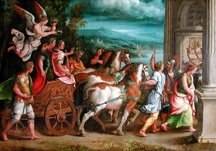 The Triumph of Titus and Vespasian 1,70 m x 1,20 m Oil painting on wood Louvre, Paris